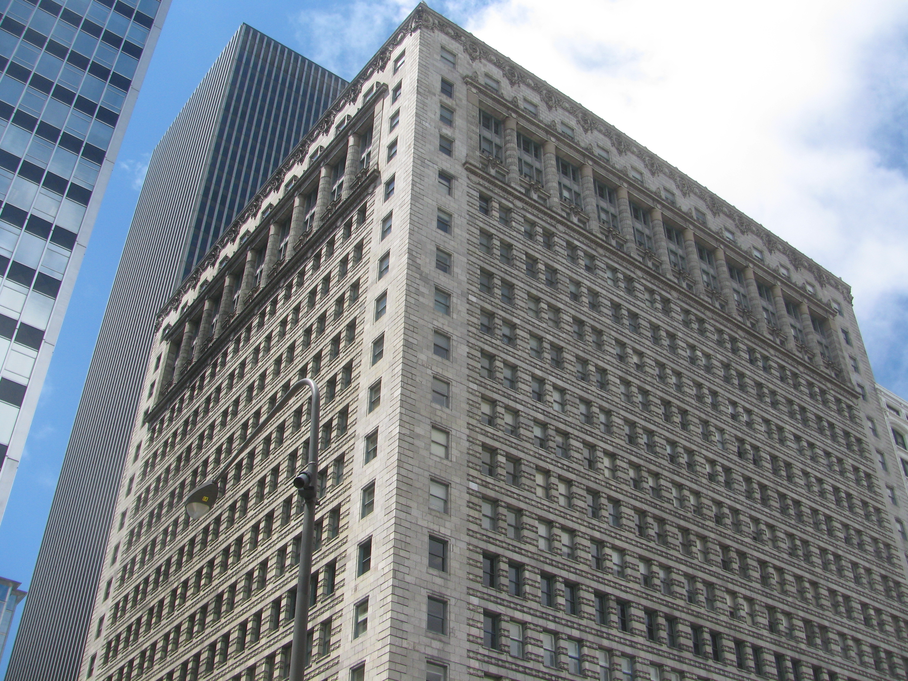 Peoples Gas Building